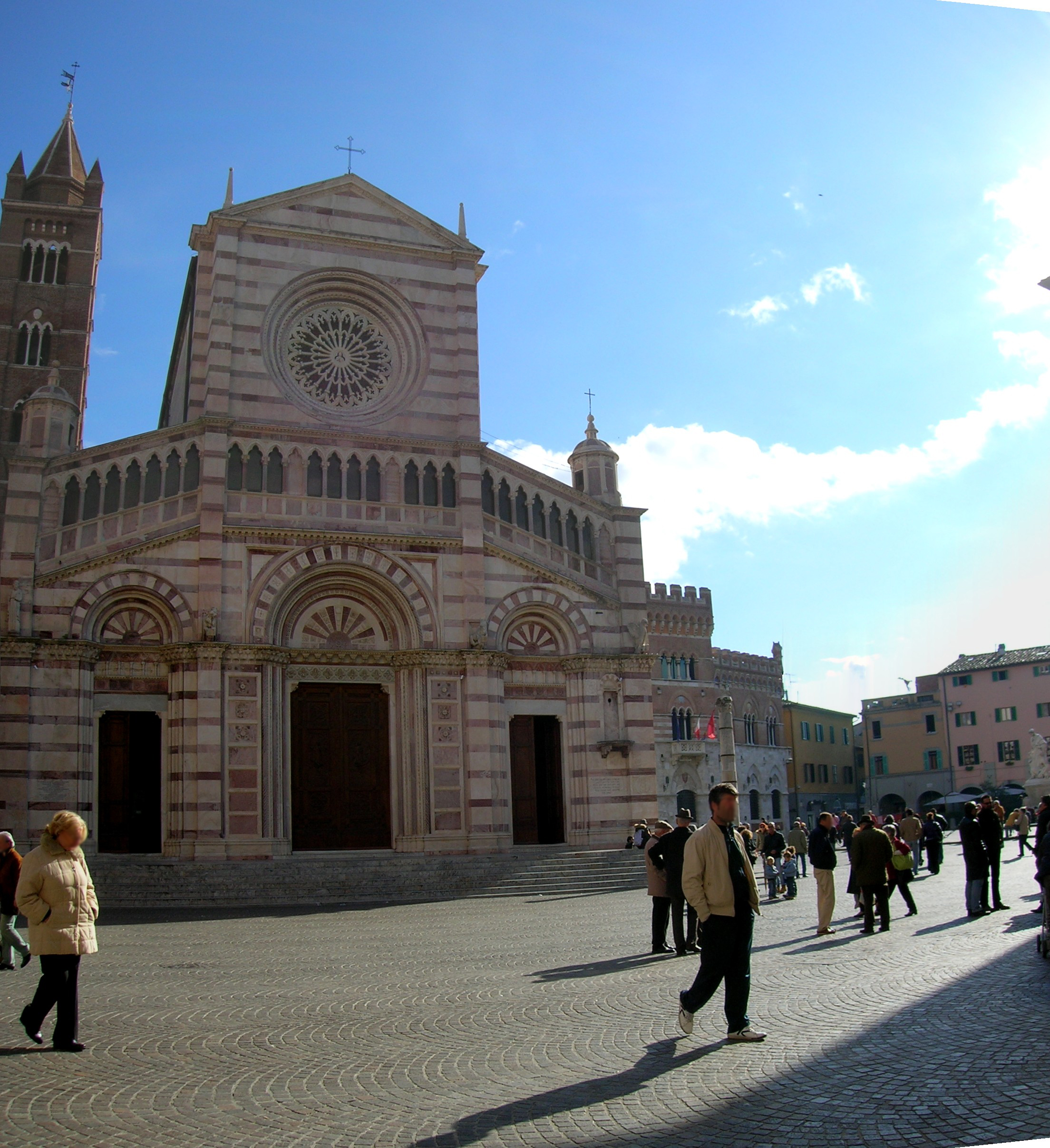 Cathedral in Grosseto, Tuscany, Italy